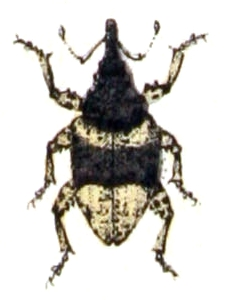 Cryptorhynchus lapathi, from Calwer's Käferbuch, Table 33, Picture 21. Taxonomy was updated to 2008, using mostly the sites Fauna Europaea and BioLib. Please contact Sarefo if the determination is wrong!